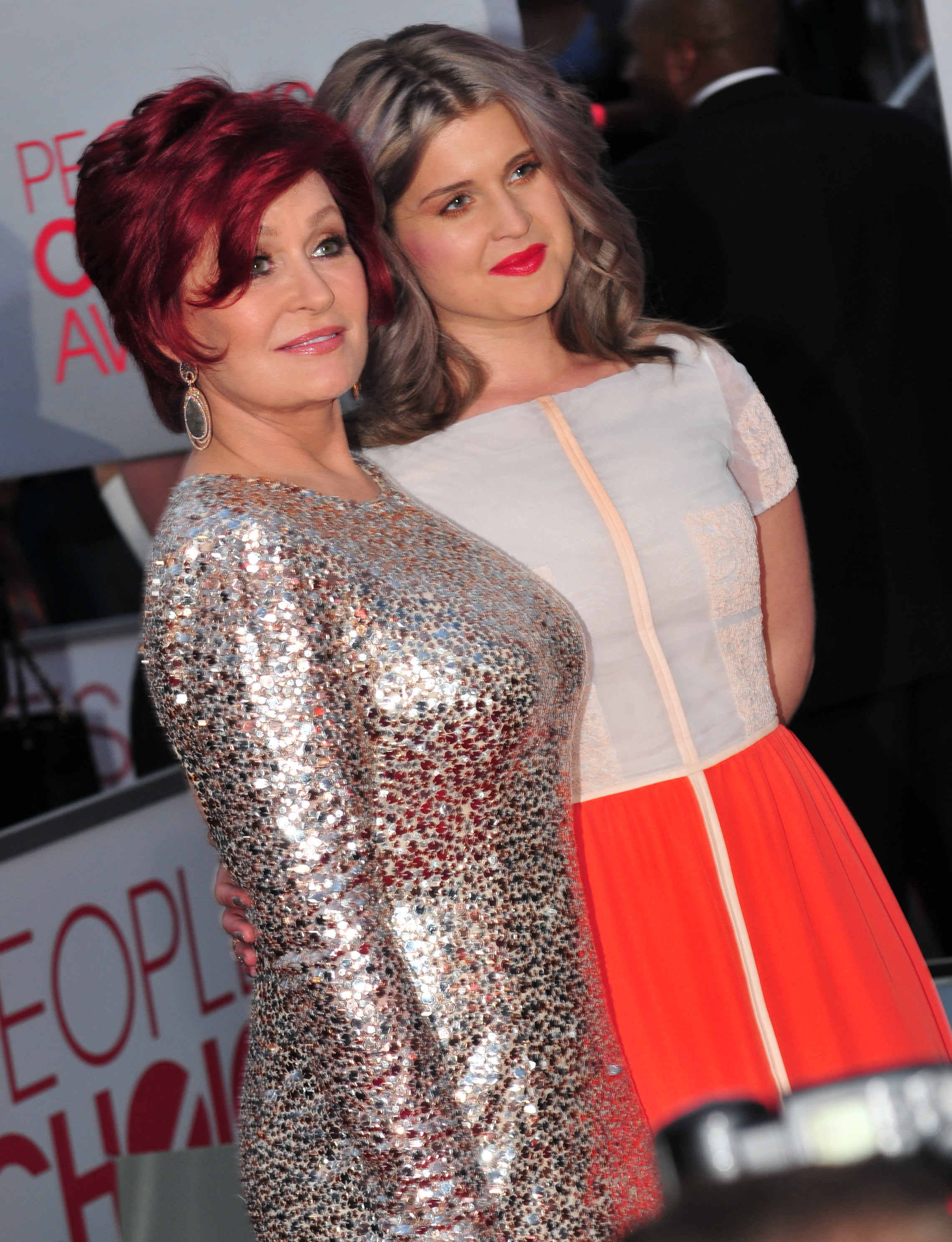 Sharon Osbourne and Kelly Osbourne on the red carpet at the 38th People's Choice Awards on January 11, 2012, at the Nokia Theatre in Los Angeles, California.